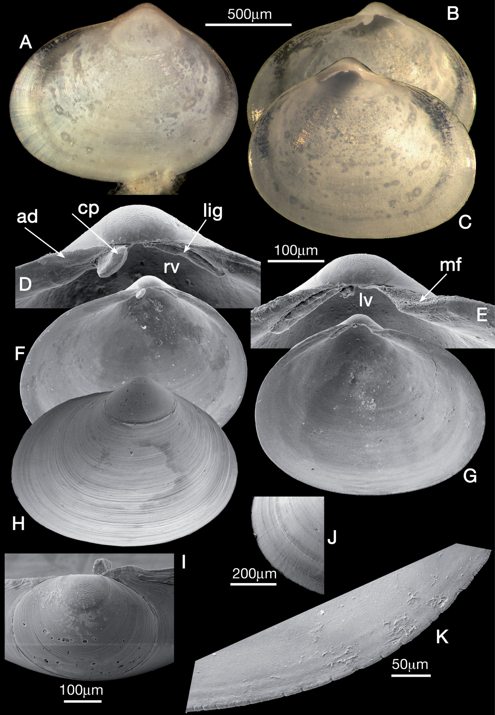 Kelliola symmetros (Jeffreys, 1876), Montacutidae, Bivalvia, from Oliver (2012: fig.3A-K). A-C: Photo micrographs a external of left valve, internals of both valves. D-E: SEM of hinges of right and left valves. F-H: SEM of internal of both valves and external of left valve. I: SEM of prodissoconch. J: SEM of anterior area showing weak radial sculpture. K: SEM of margin showing transverse grooves